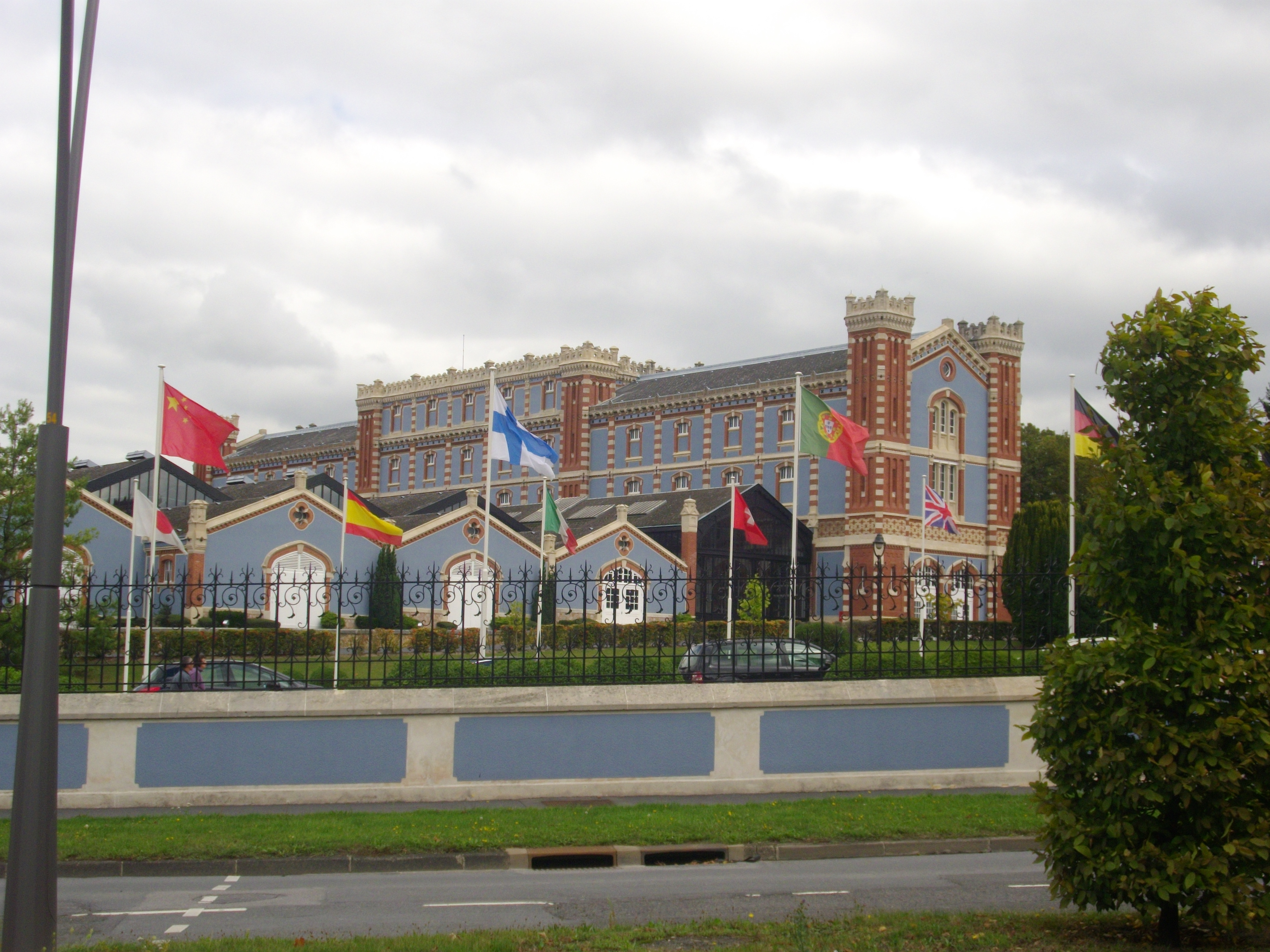 Champagne house Vranken-Pommery in Reims (Marne, France)